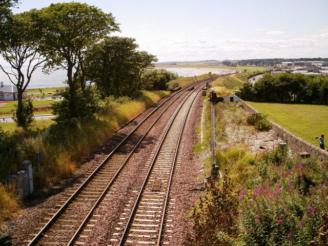 Main Railway Line at Arbroath Showing south view of railway line at the west side of Arbroath, quite near to Arbroath Infirmary.